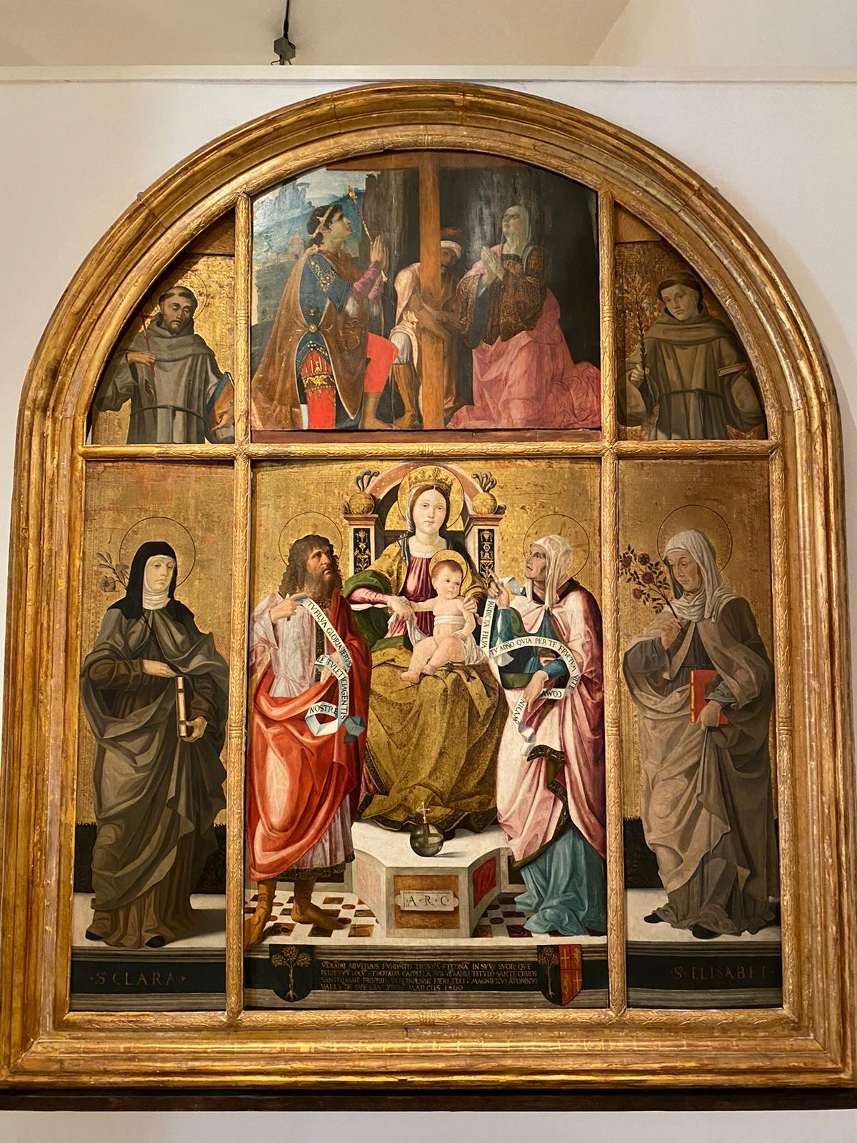 Polittico della Croce Cristoforo Scacco, Museo Campano, Capua, Italy